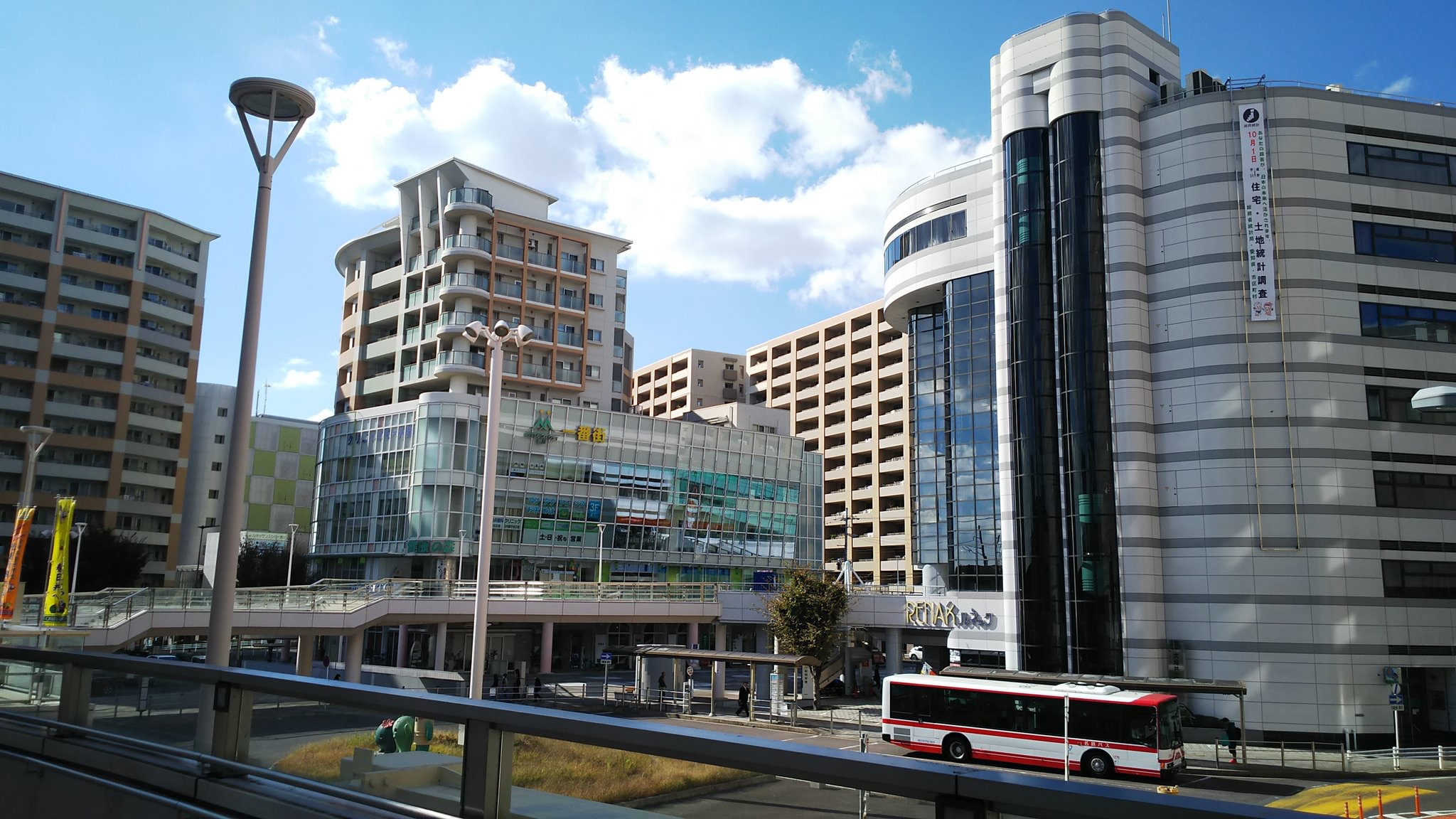 Kachigawa renaik